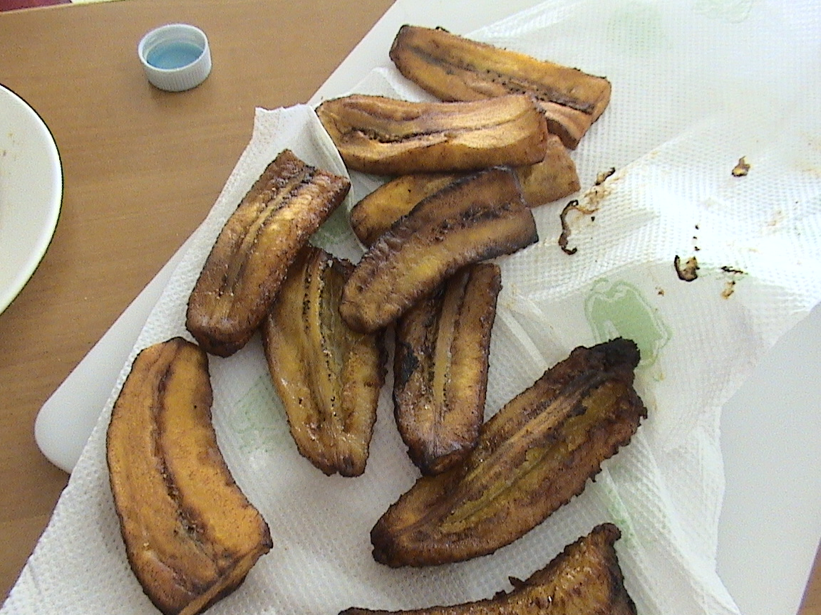 Fried plantain